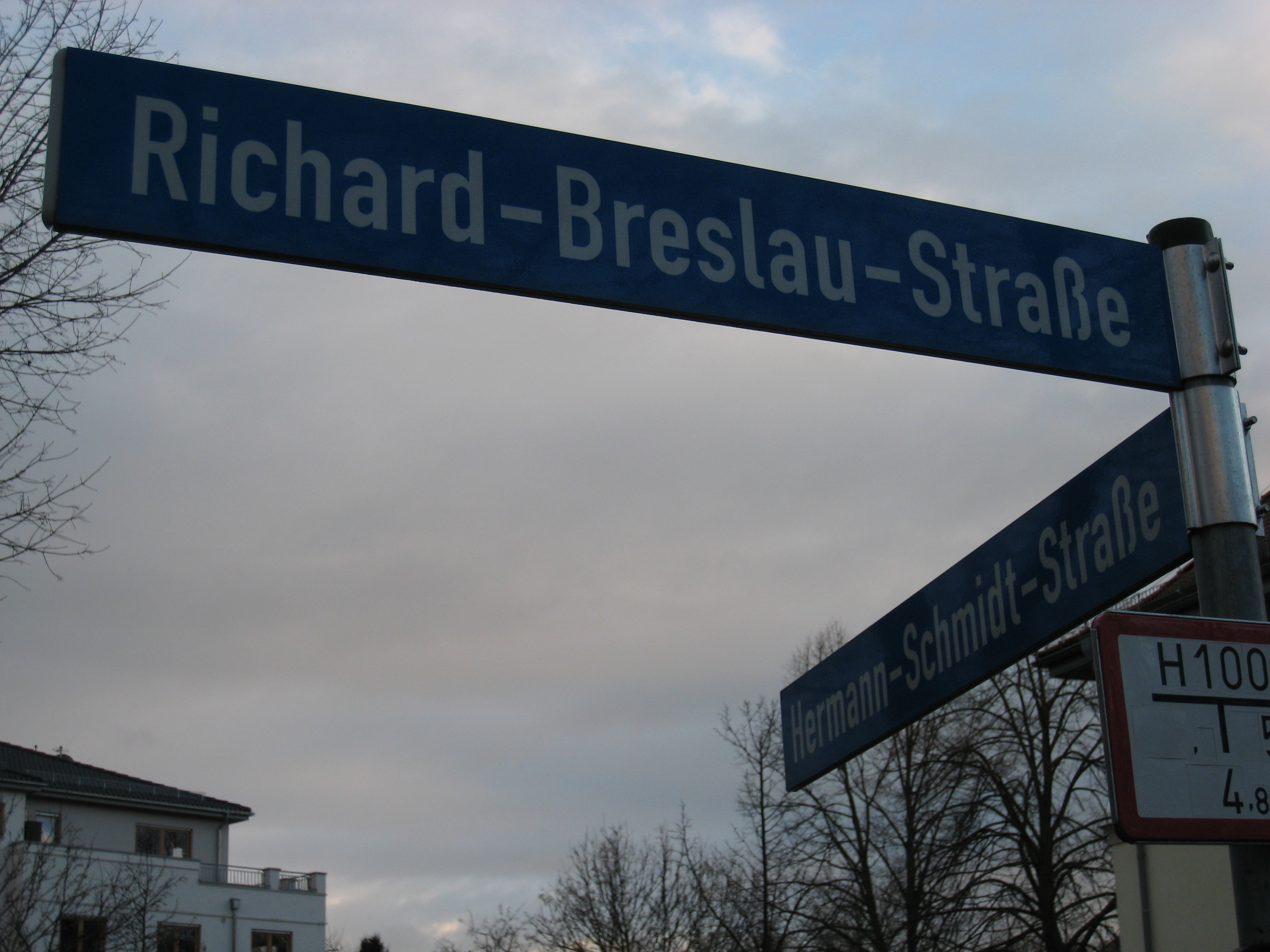 Hermann Schmidt Straße, Richard Breslau Straße Erfurt